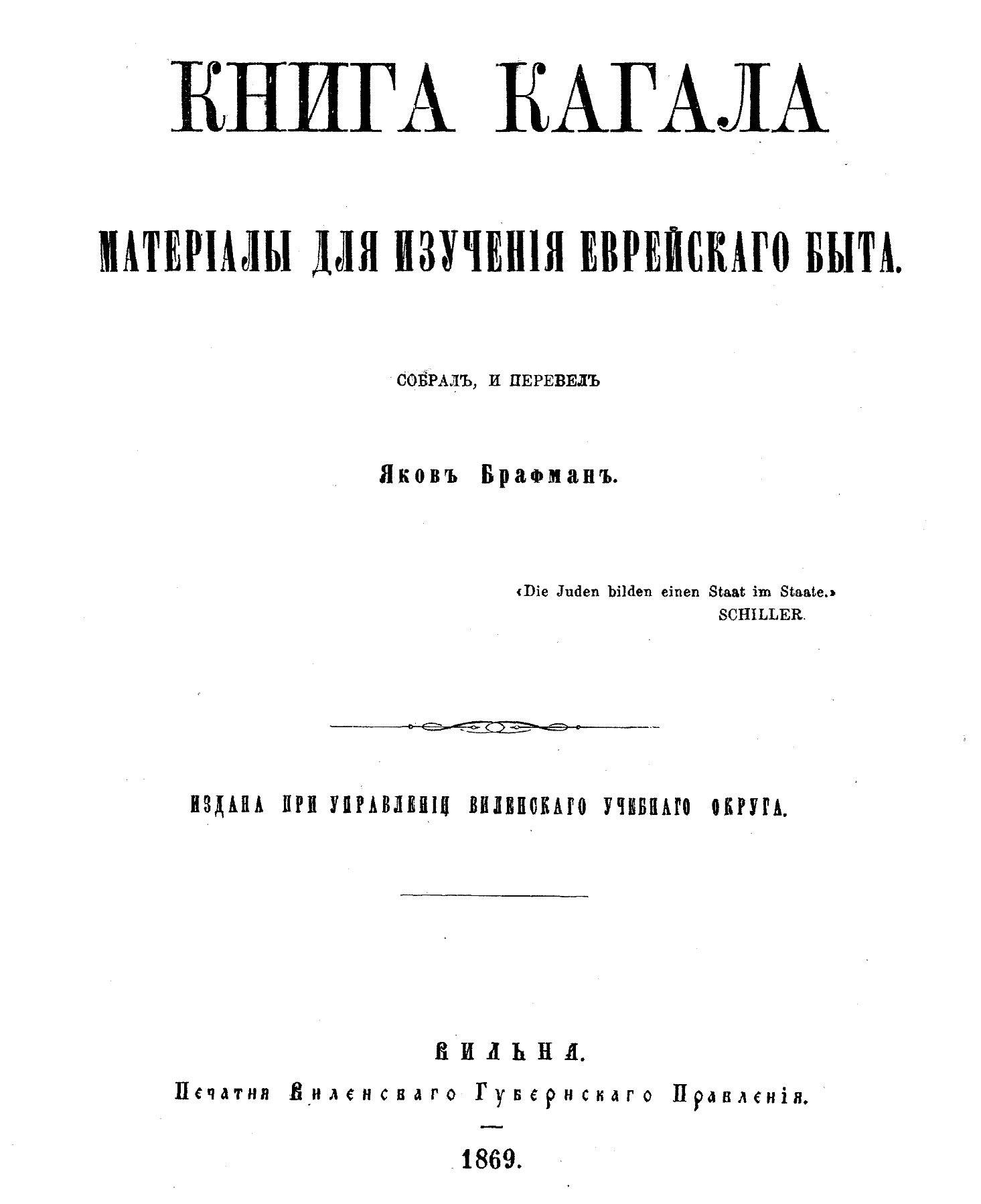 Kahal's Book. Materials for the study of Jewish life. Issue 1. 1869.